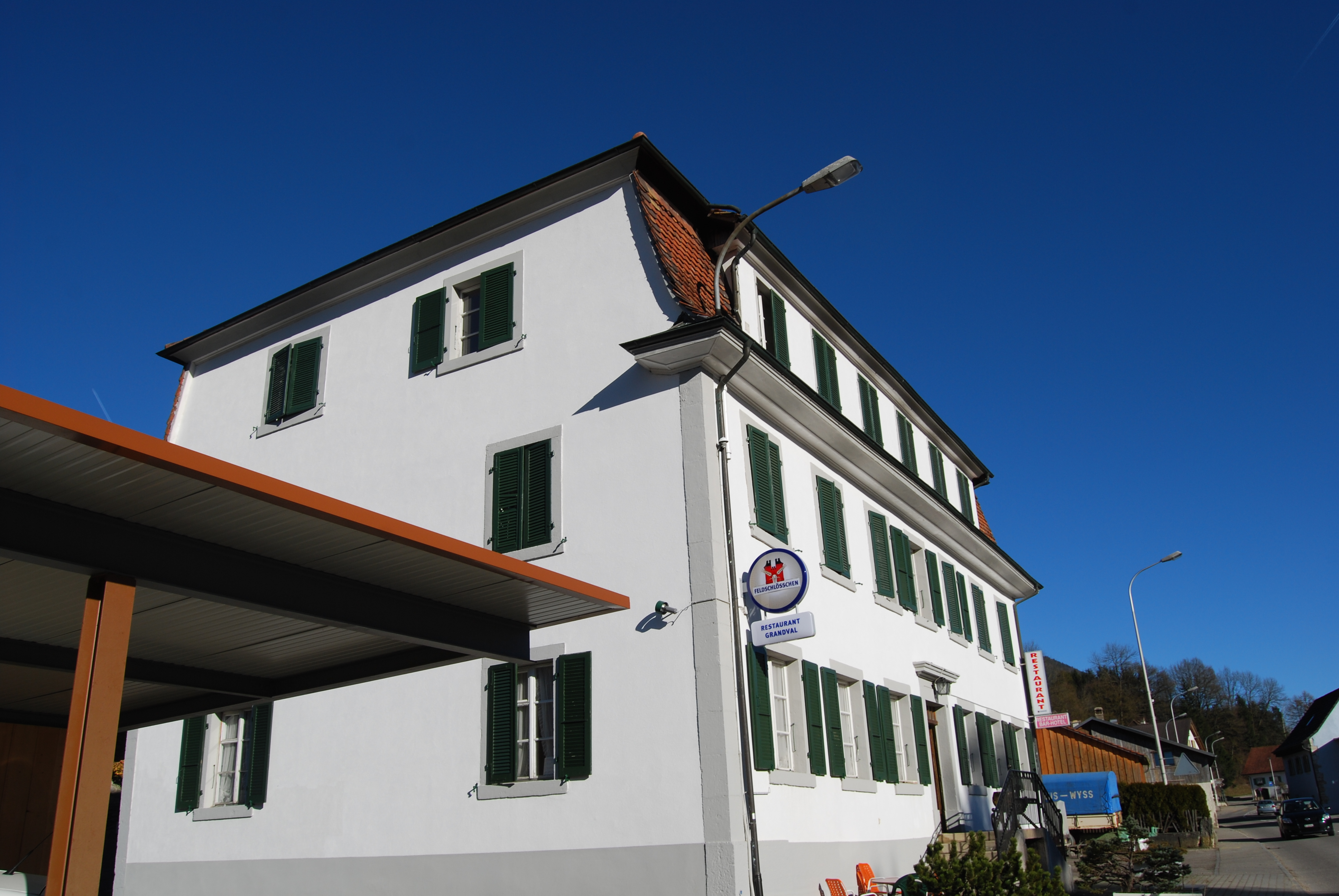 Restaurant Grandval at Grandval, canton of Bern, Switzerland